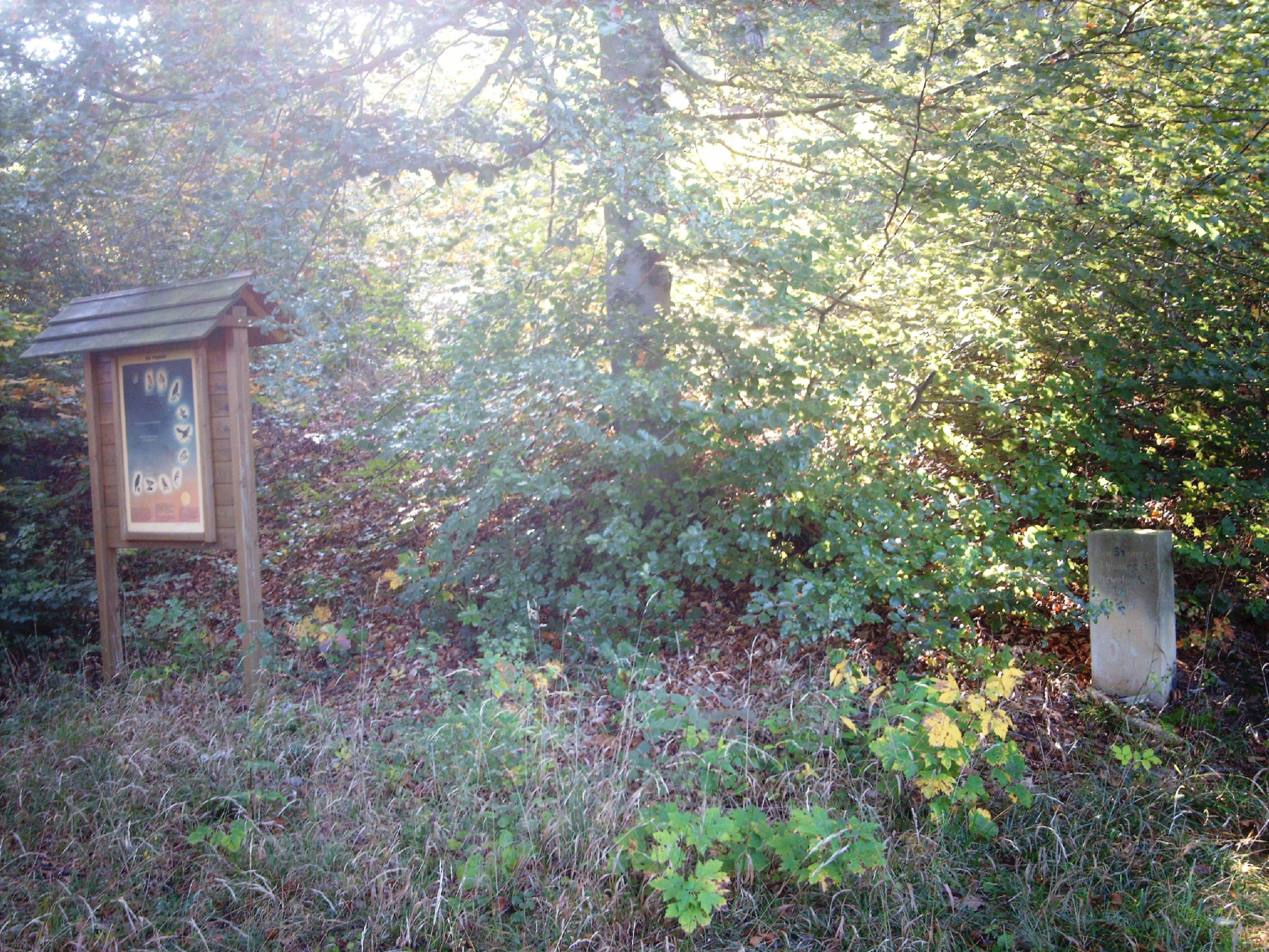 Sängerstein (Arnstadt) 2, october 2014